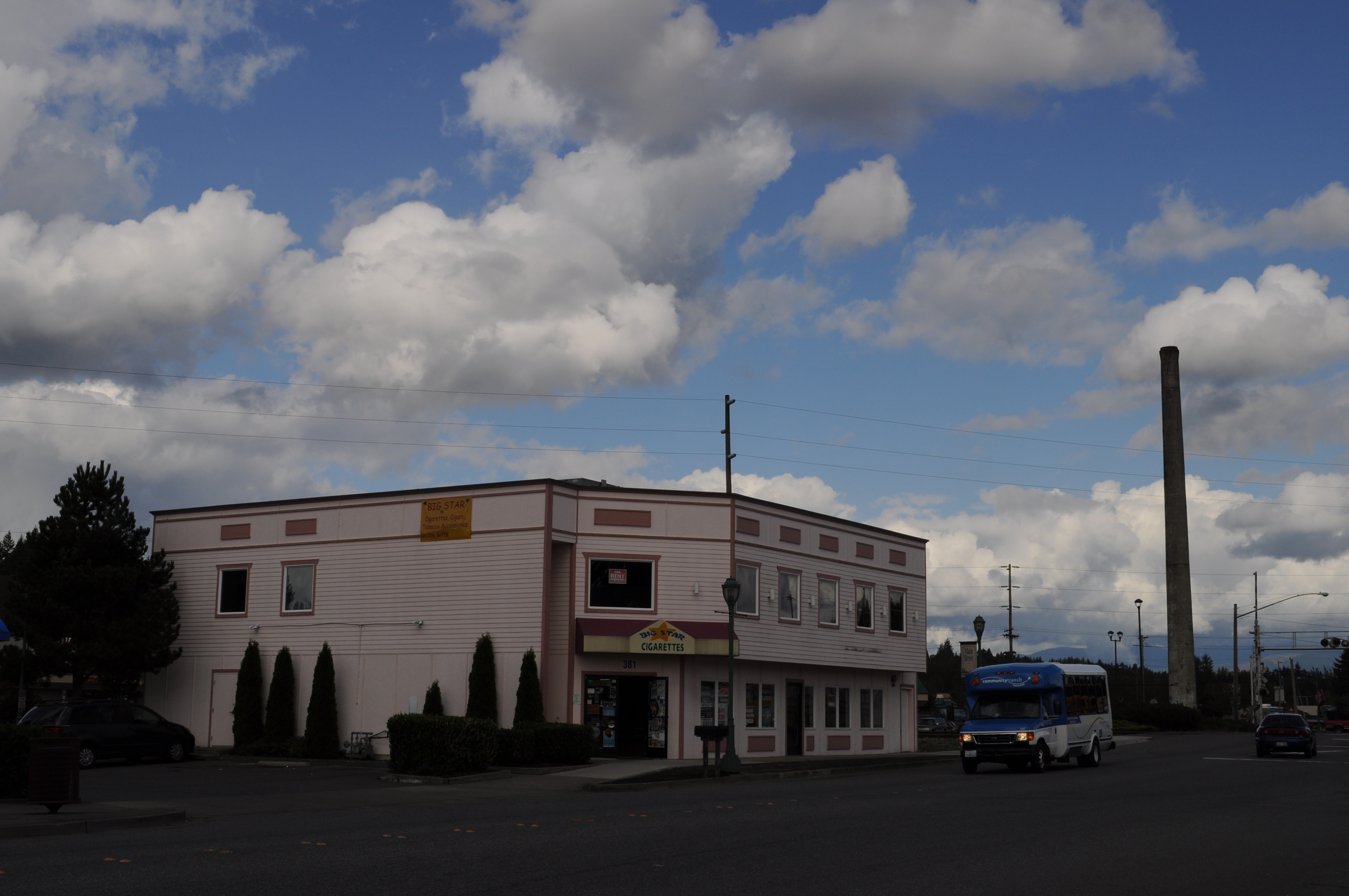 (At right) Carnation Condensery Stack, Monroe, Washington. At left a shop on E. Main St. The Carnation Condensery factory was destroyed by fire in the 1940s, but its smokestack still stands near the intersection of Monroe's E. Main Street and US Route 2.